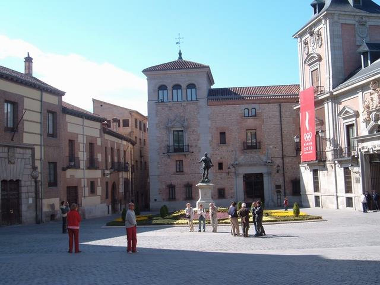 Plaza de la Villa (square) in Madrid (Spain). At the centre, Monument to Álvaro de Bazán. In the background, Casa de Cisneros (building).